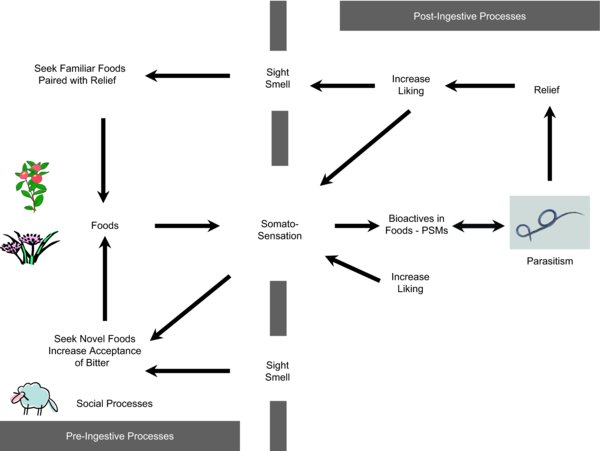 A conceptual representation of how pre- and post-ingestive events control the manifestation of self-medicative behavior in mammalian herbivores. Self-medication emerges from enhanced neophilia and increased acceptance of certain somatosensations (e.g., taste dimensions, tactile properties) triggered by parasitism. These increases in neophilia and acceptability, together with social learning, should “prime” animals to ingest therapeutic doses of medicinal secondary compounds (pre-ingestive processes). Subsequently, associative learning (i.e., associations between orosensorial properties of a medicinal food and relief experienced after ingesting that food) will maintain and/or reinforce self-medicative behaviors. Thus, a chain of events starting with food acceptability and social learning followed by post-ingestive processes may contribute to the emergence of self-medication in mammalian herbivores.